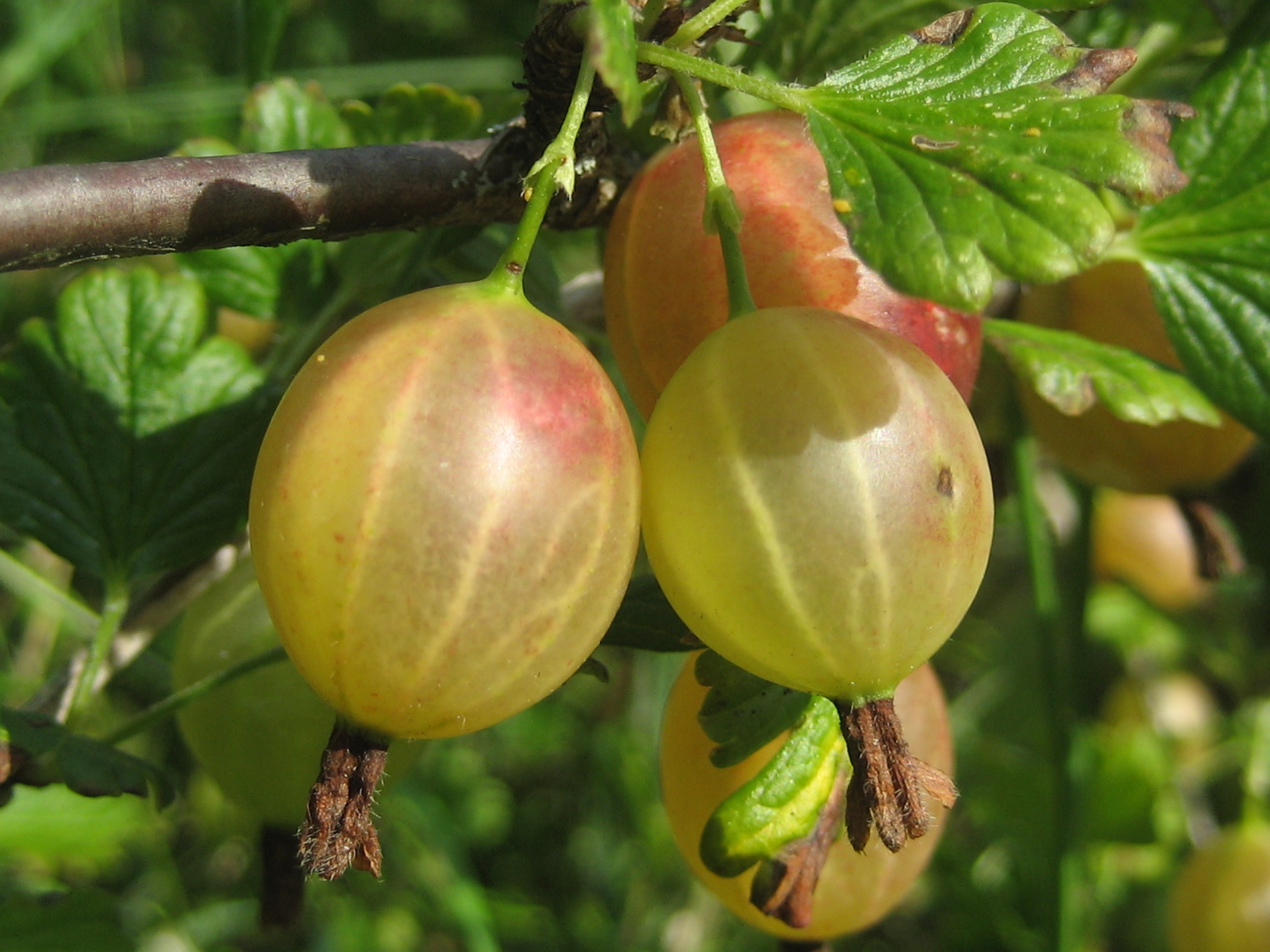 Gooseberries. Moscow region.